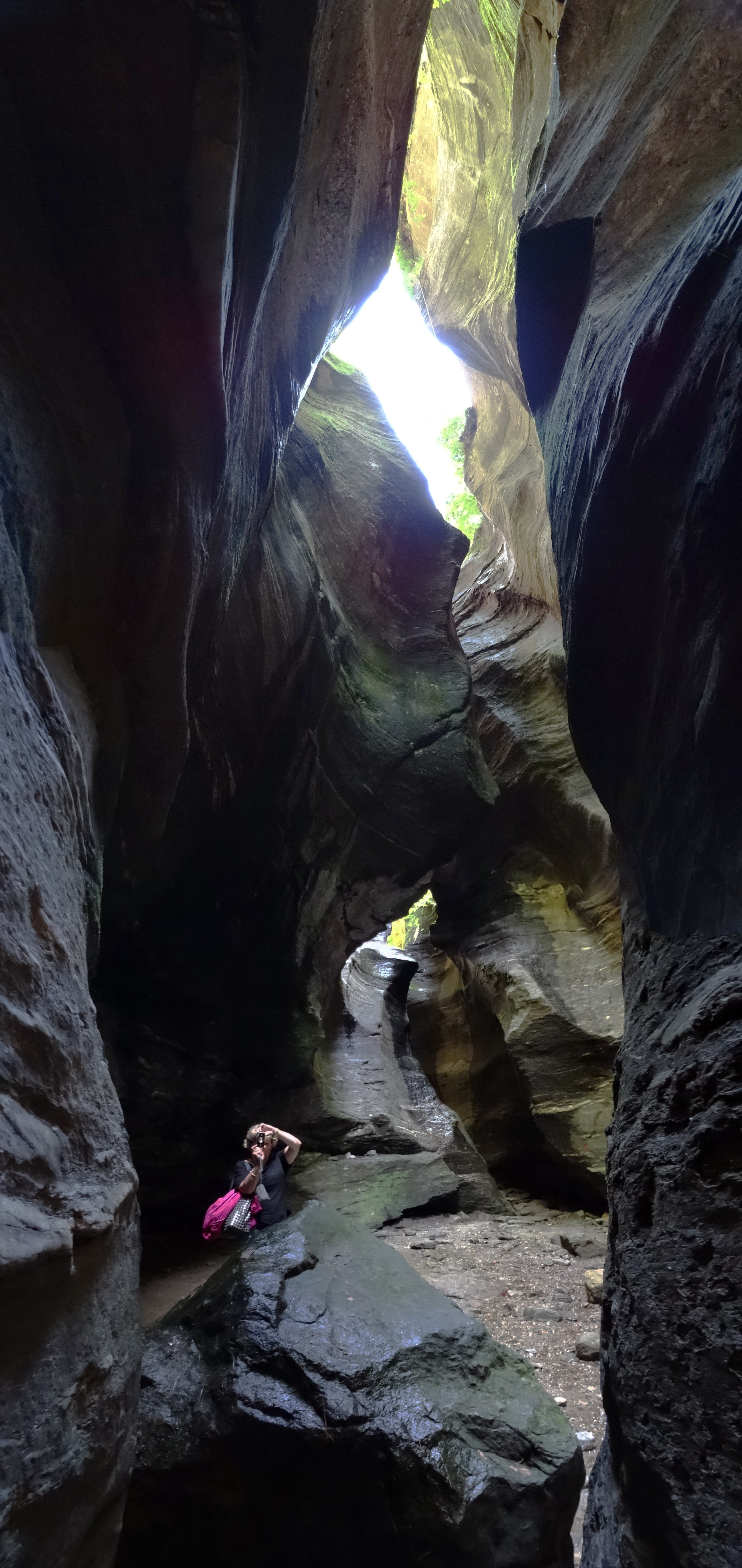 in the south canyon of Uriezzo